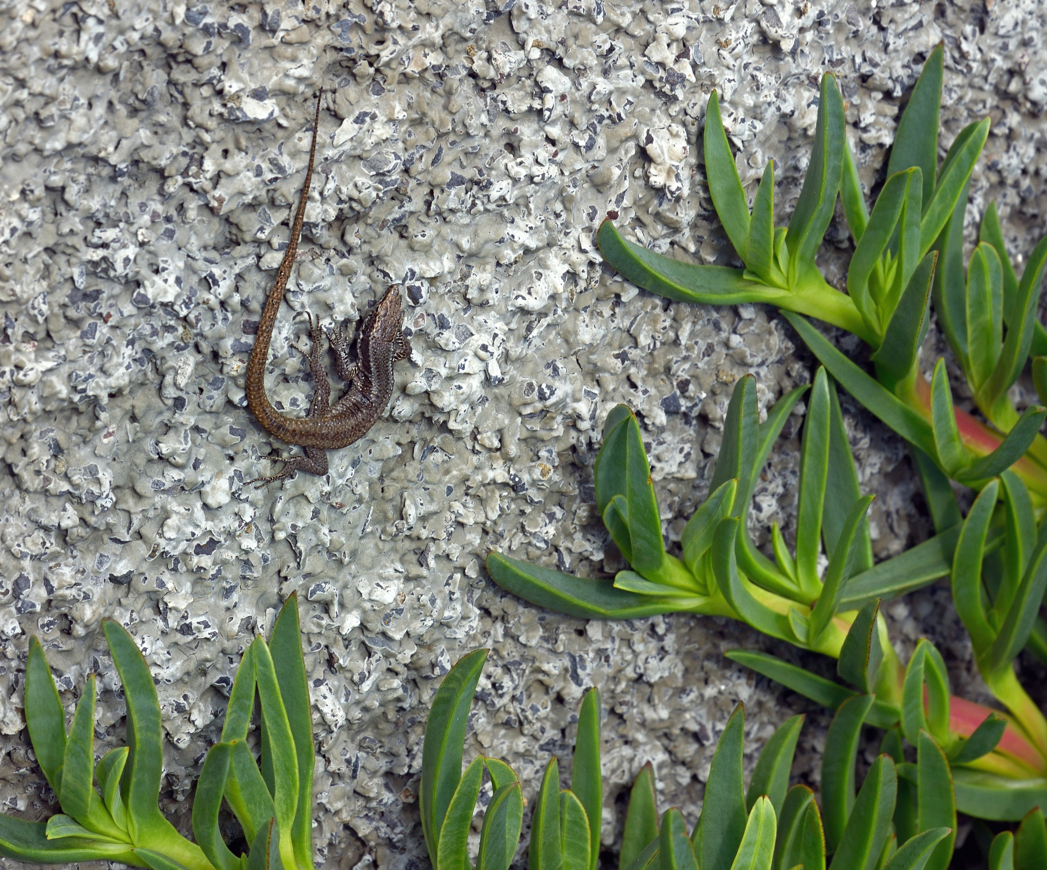 Madeiran wall lizard